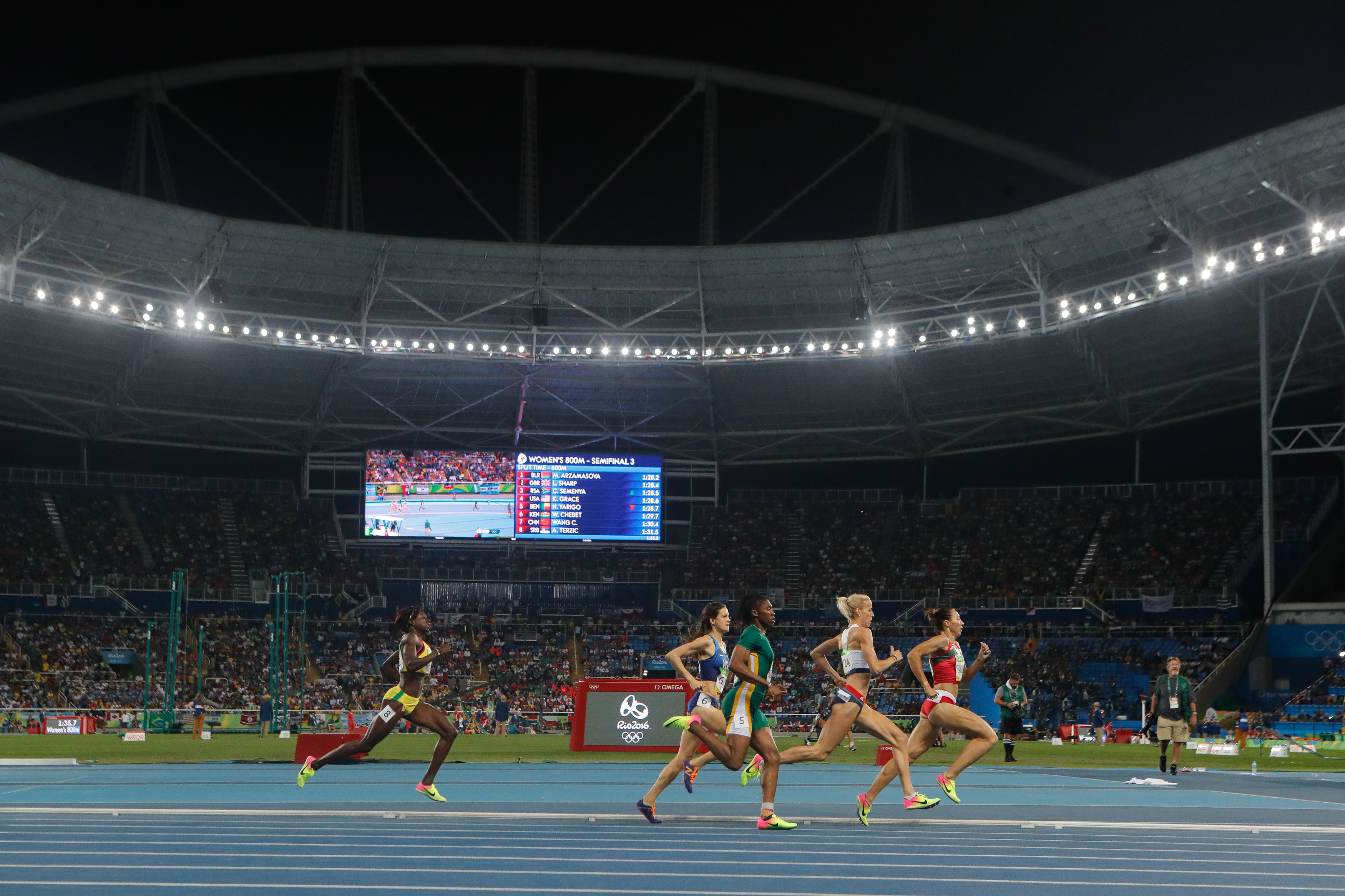 Rio de Janeiro - Semifinais dos 800m feminino nos Jogos Rio 2016, no Estádio Olímpico. (Fernando Frazão/Agência Brasil)